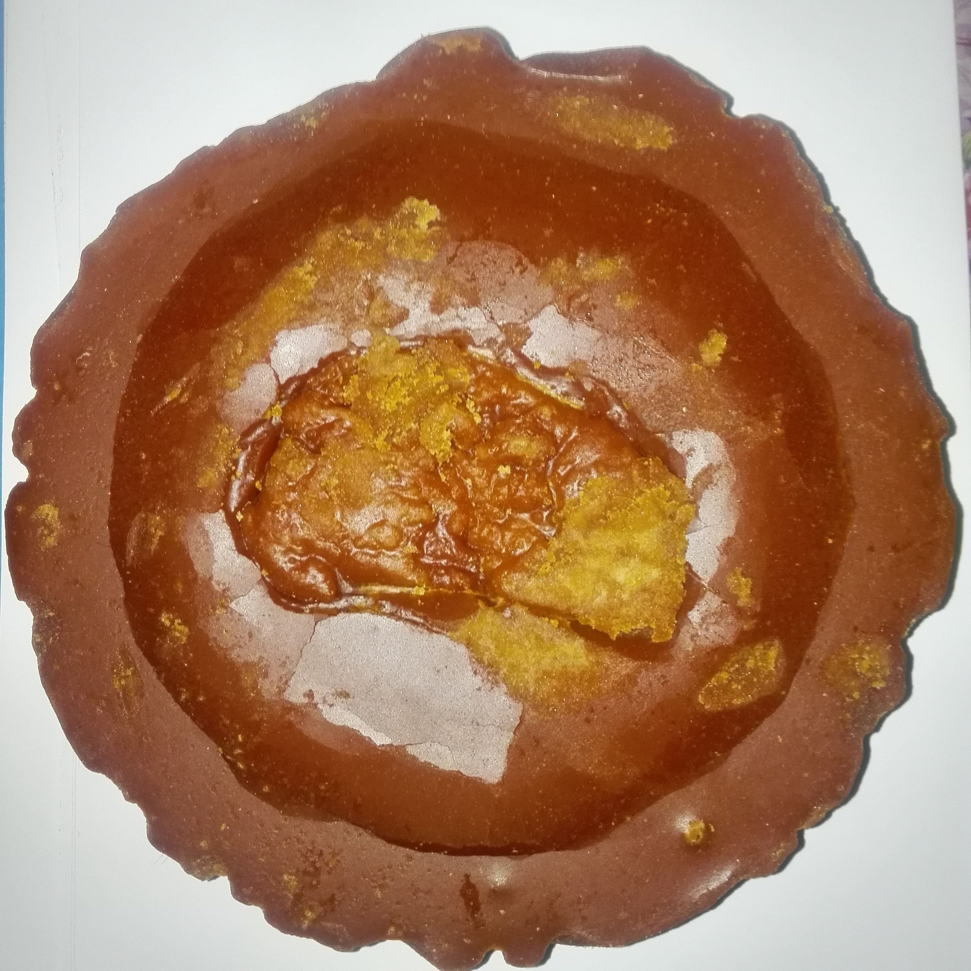 Jaggery from the date palm juice, Bangladesh